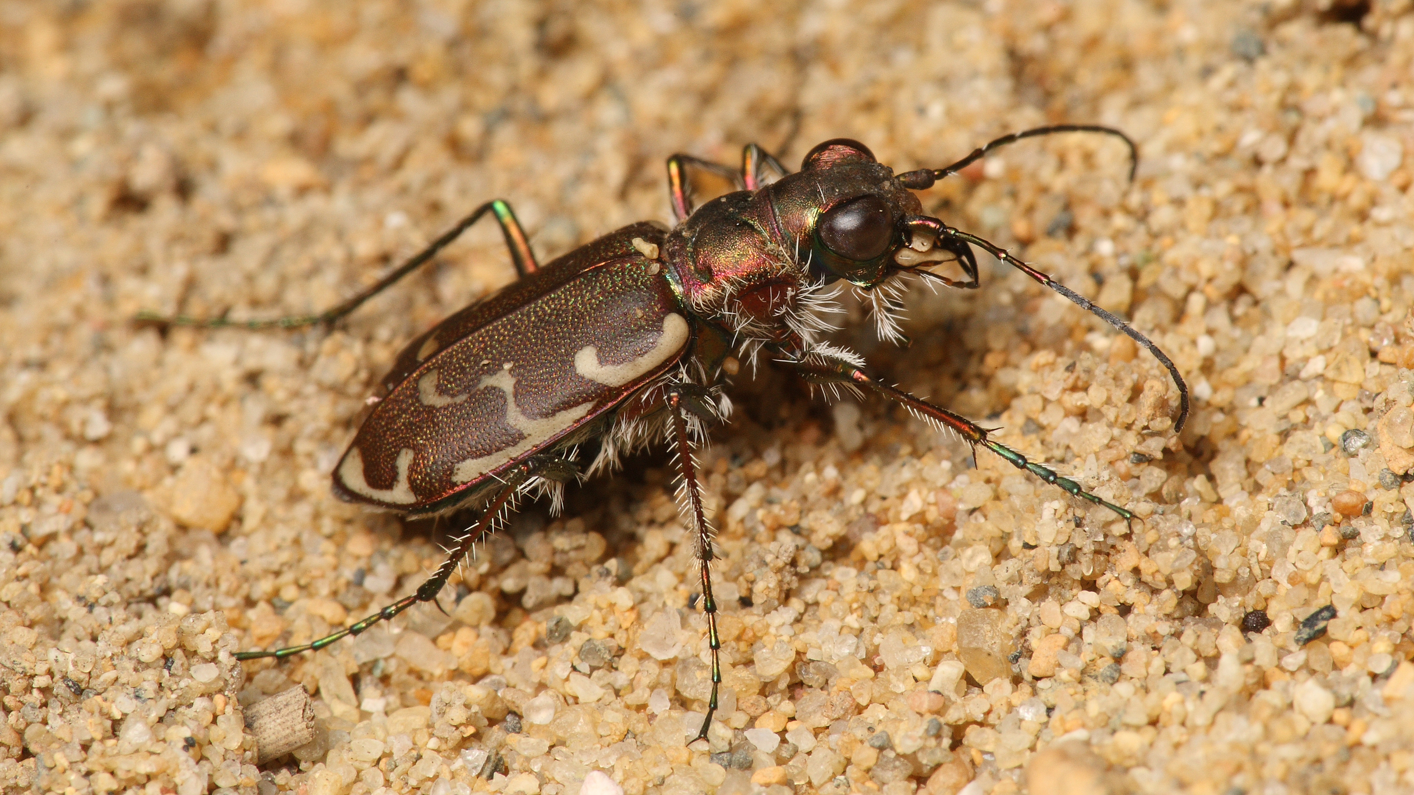 Bronzed Tiger Beetle -- Kettle Lakes Provincial Park, Ontario, Canada -- 2008 September